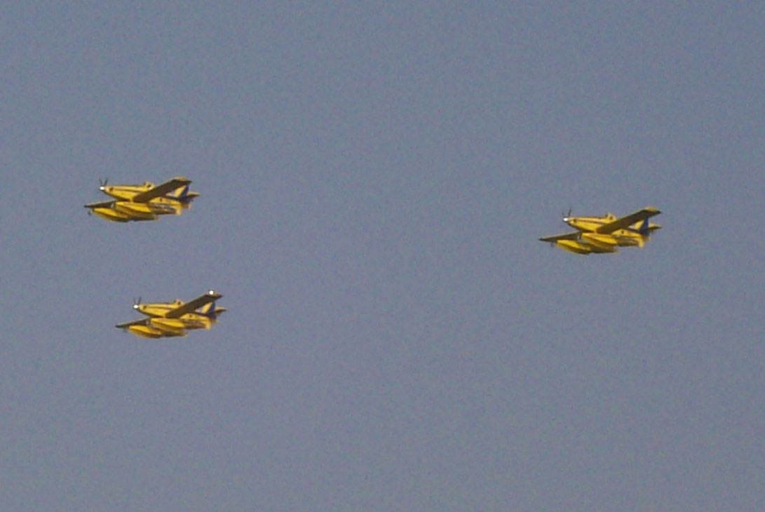 Croatian AirTractors AT-802F FireBoss